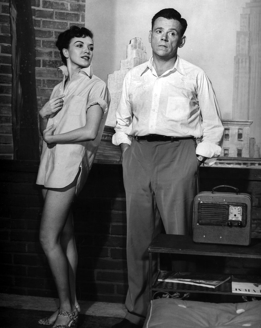 Publicity photo of Tom Ewell and Paulette Girard in Broadway play, The Seven Year Itch.